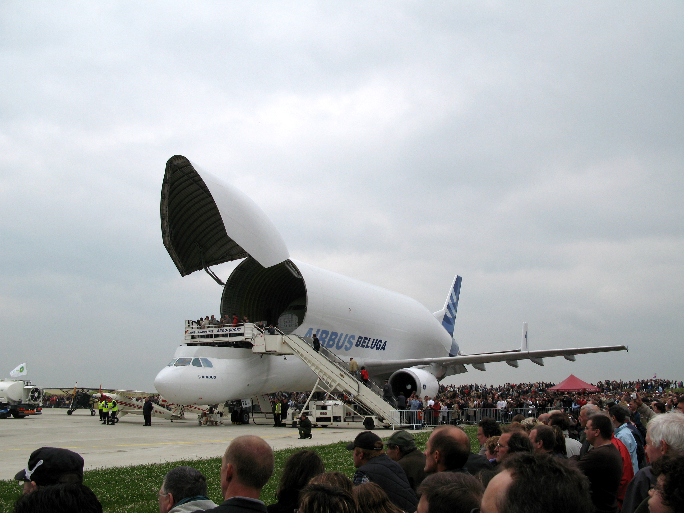 Airshow on Saturday 7 June 2008 at Méaulte (Albert-Picardie Airport) (Somme, France) - The Airbus Beluga. Left in the background, we see 3 devices, a black and beige airplane: the Morane Saulnier MS-317, registration F-BGUV and 2 other white and red: the Bücker Jungmann 131, registration F-PCSY the Jungmeister Bücker 133, registration F-AZHC